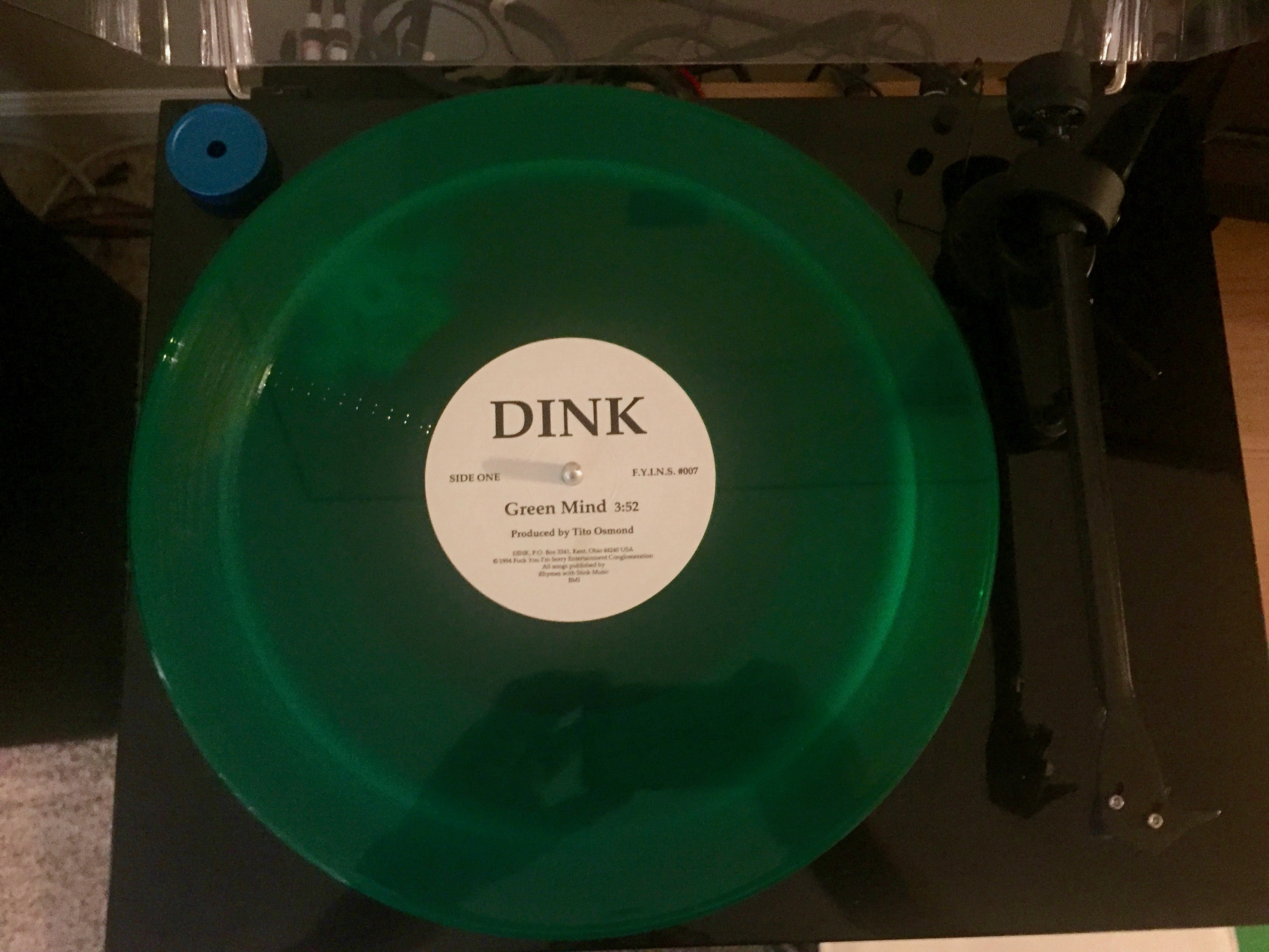 A photo of the clear green vinyl 12" single for DINK - Green Mind